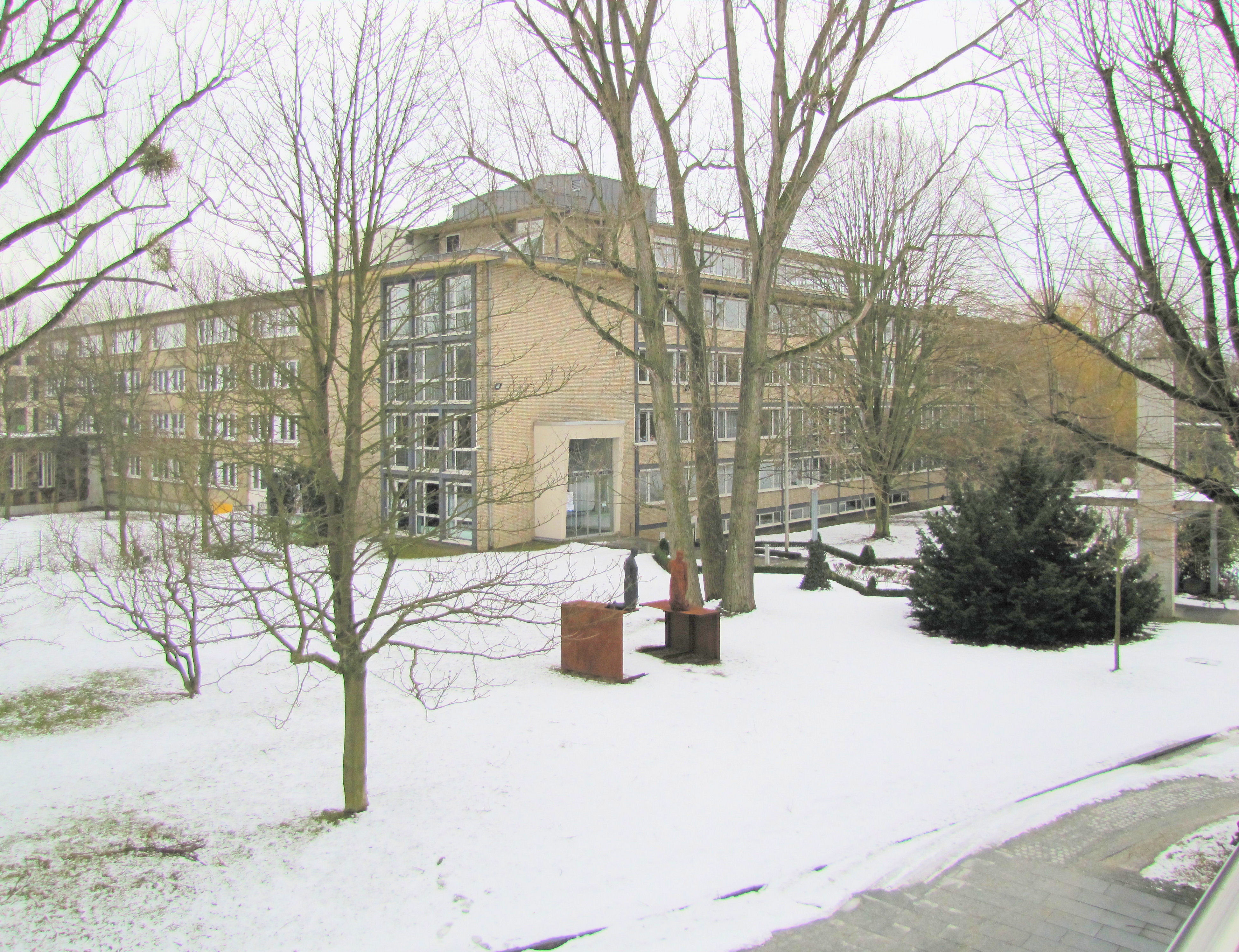 Former "Bundesschuldenverwaltung" (federal agency for government bonds until 2001/6) at Bad Homburg, Hesse, Germany. In front of the sculpture "Melancholia I" from Hanneke Beaumont, dutch sculptor.